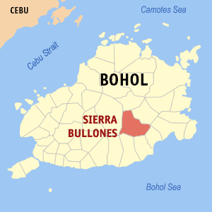 Map of Bohol showing the location of Sierra Bullones